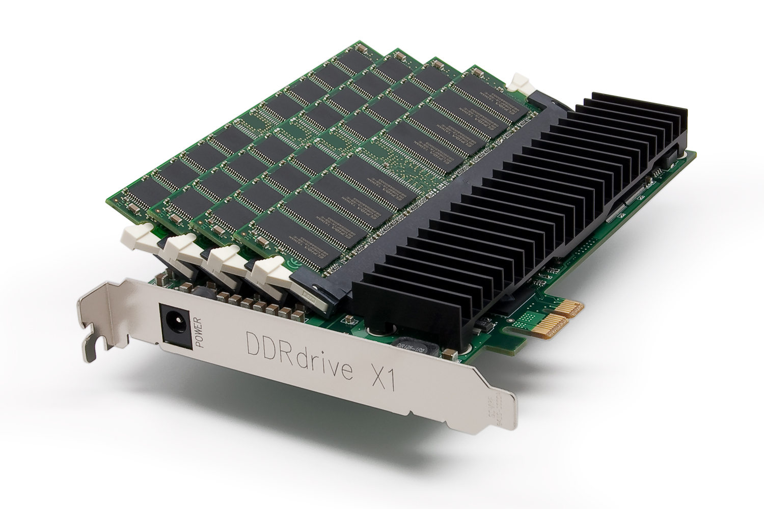 DDRdrive X1 - The drive for speed.